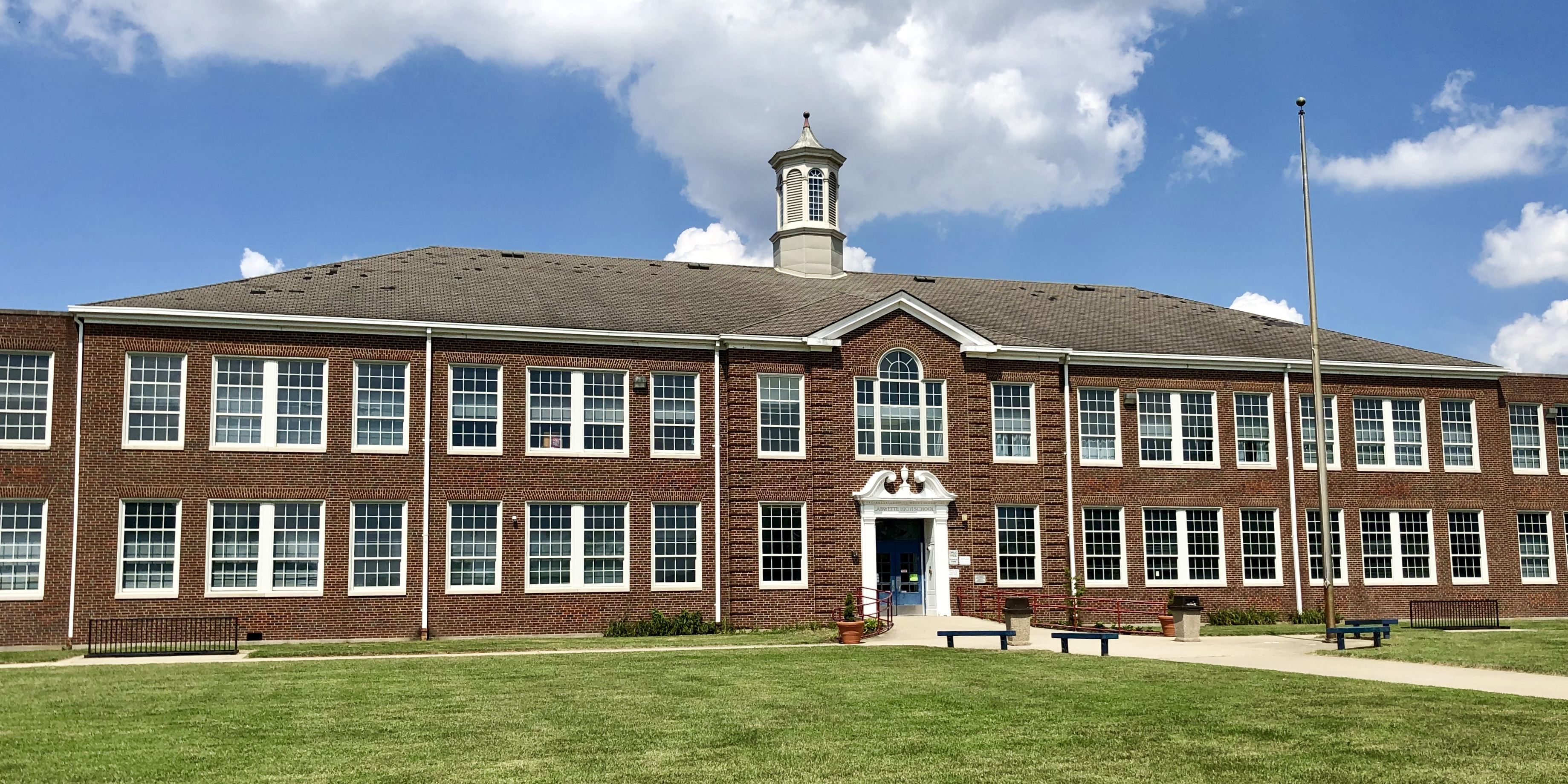 The front of Lafayette High School in the summer of 2019